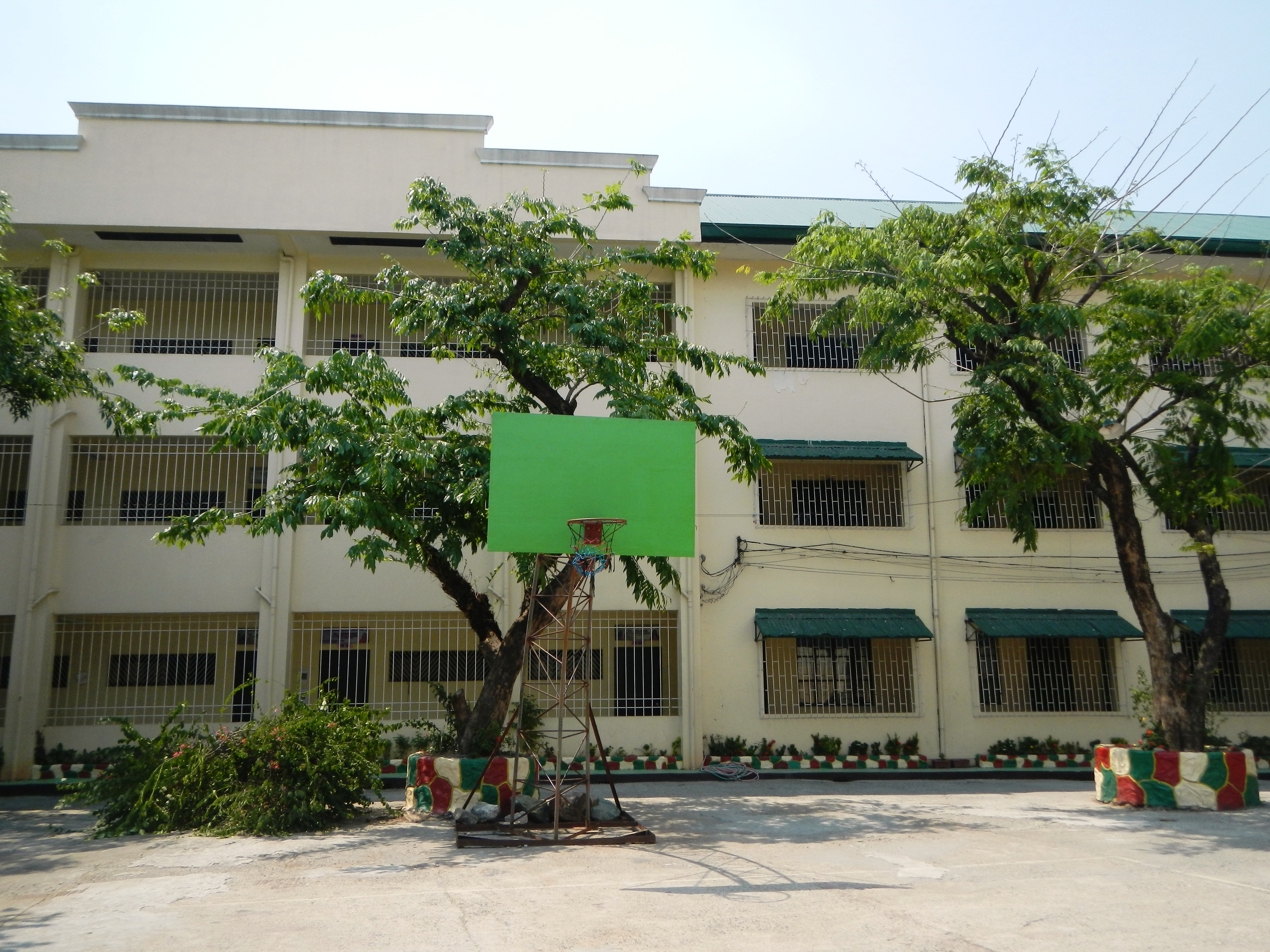 Lawang Bato National High School Centro St., Lawang Bato, Valenzuela City; only solar powered library in Metro Manila.